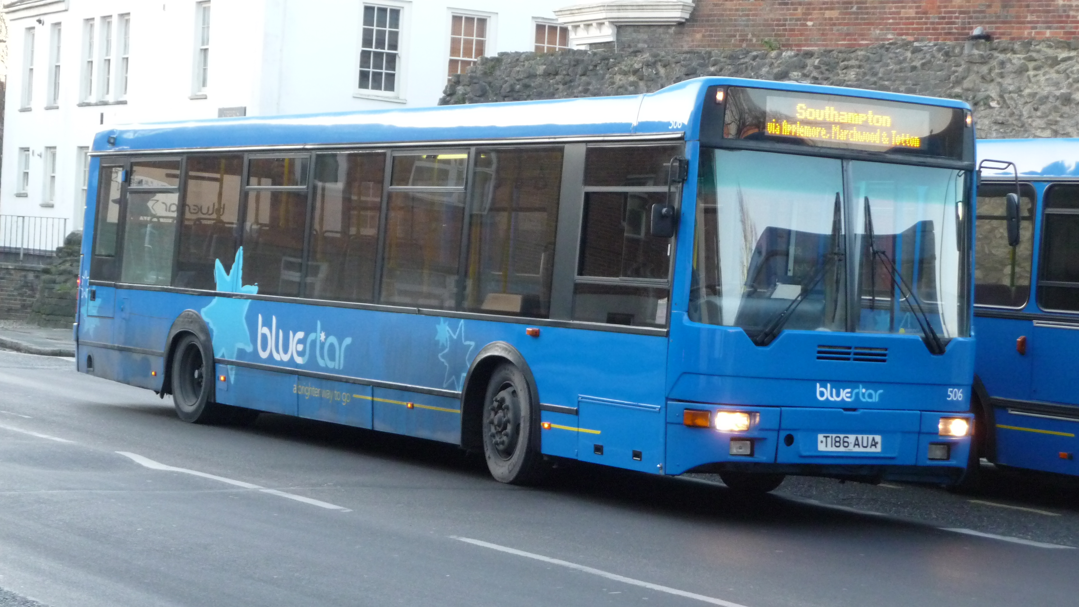 Bluestar 506 (T186 AUA), a DAF SB220/Ikarus CitiBus 481, in Castle Way, Southampton, laying over between duties on route 8.